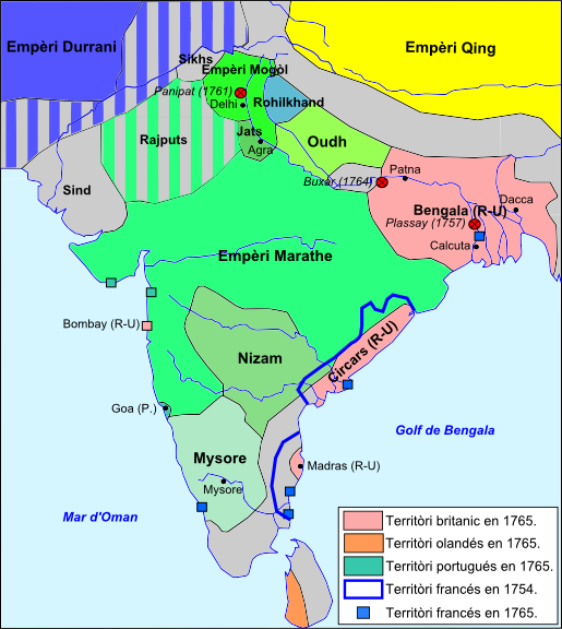 Division de la peninsula indiana vèrs 1765.